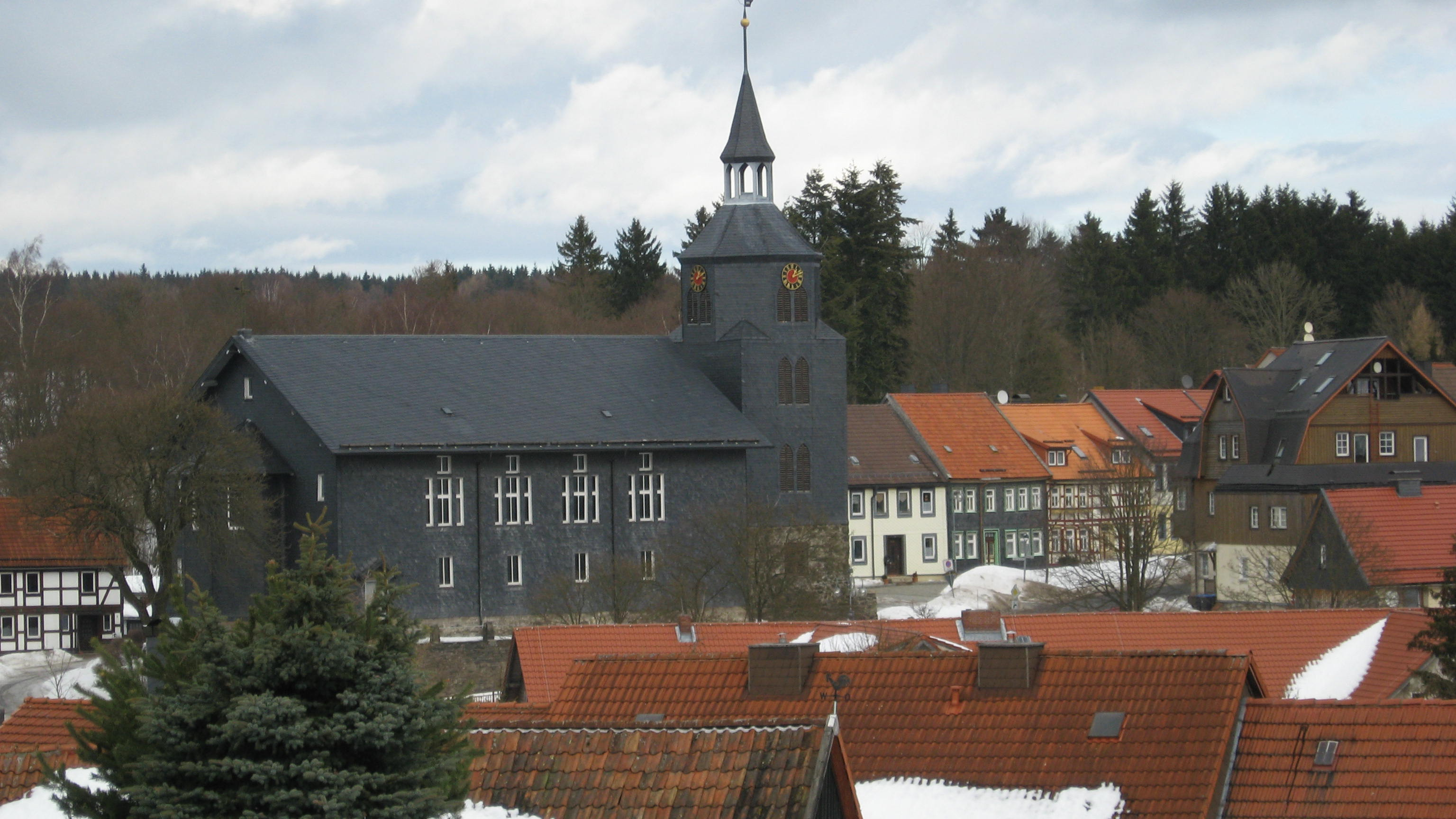 Church: St. Laurentius in Benneckenstein (Germany)